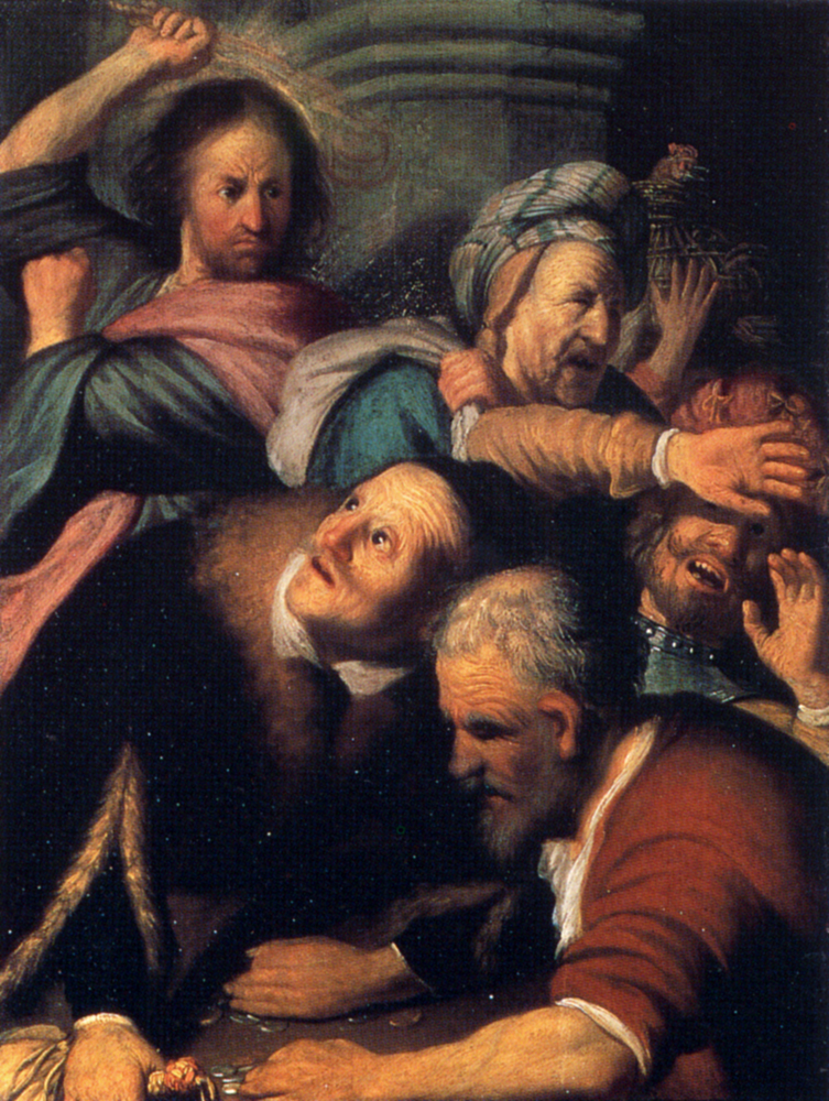 Christ Driving the Money Changers from the Temple